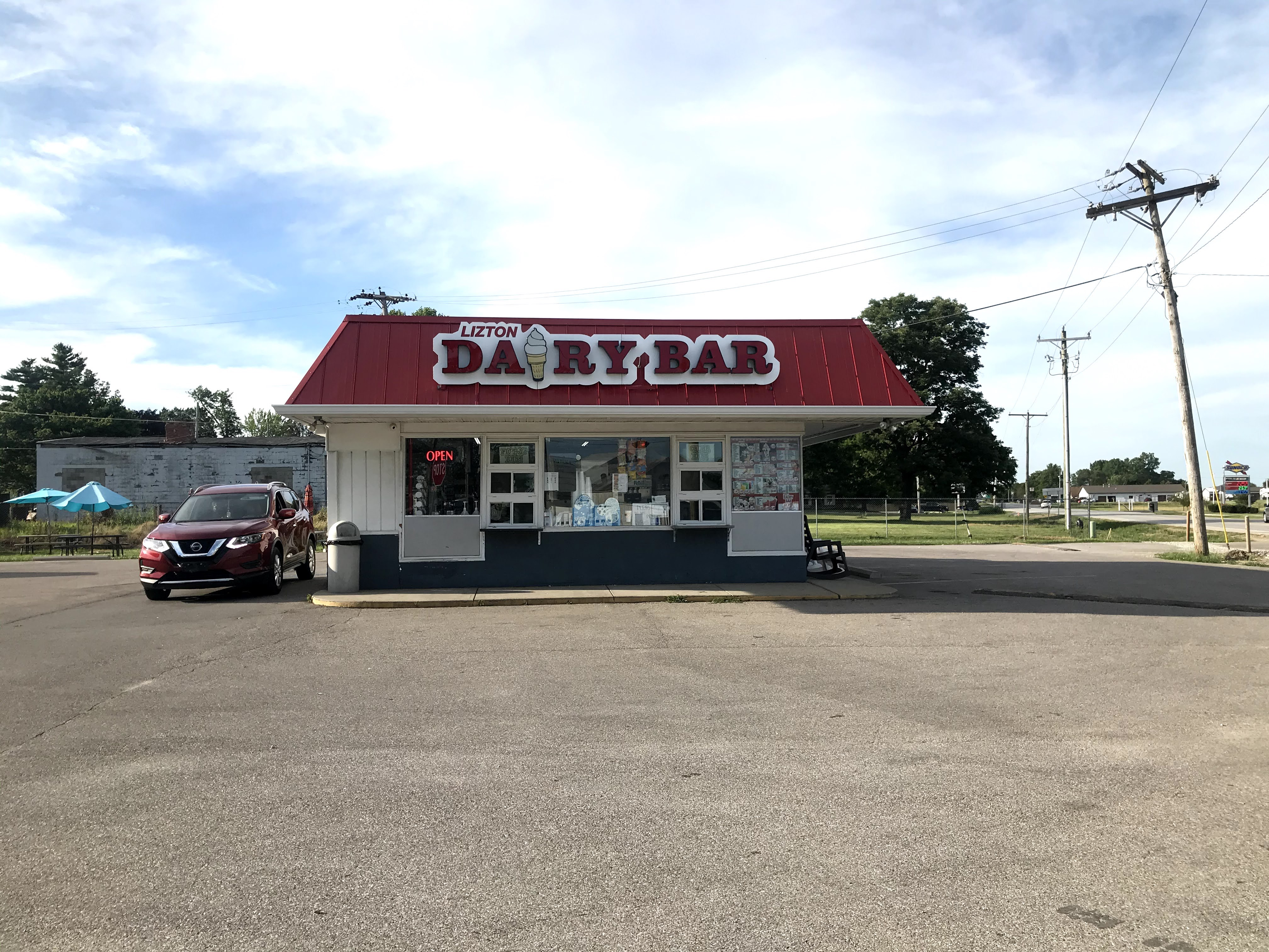 Lizton Dairy Bar